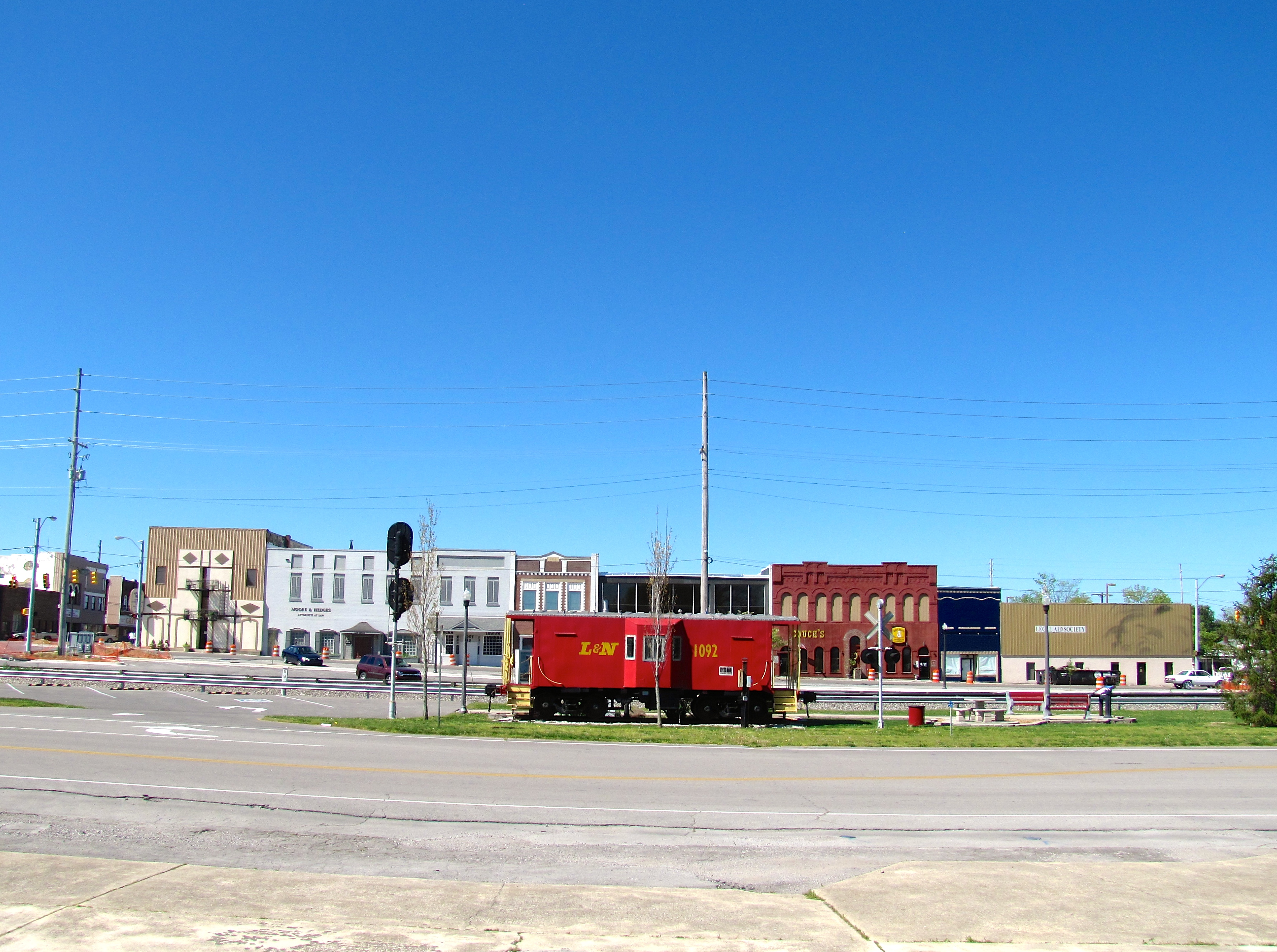 Buildings along Atlantic Avenue in downtown Tullahoma, Tennessee, United States, with L&N 1092 caboose on display in the foreground